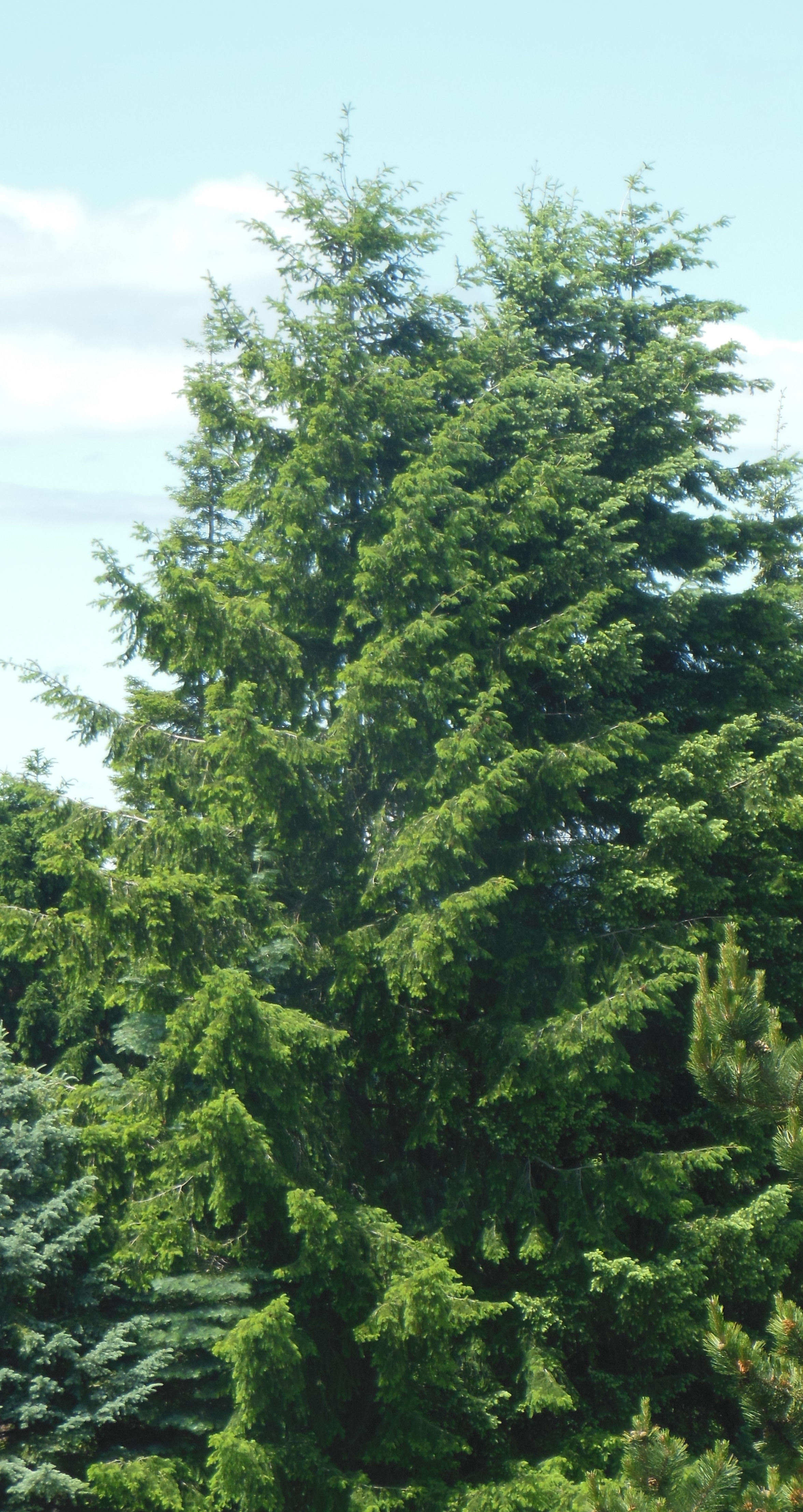 This is an image of 3 Douglas Firs from the Pacific Northwest city of Marysville Washington